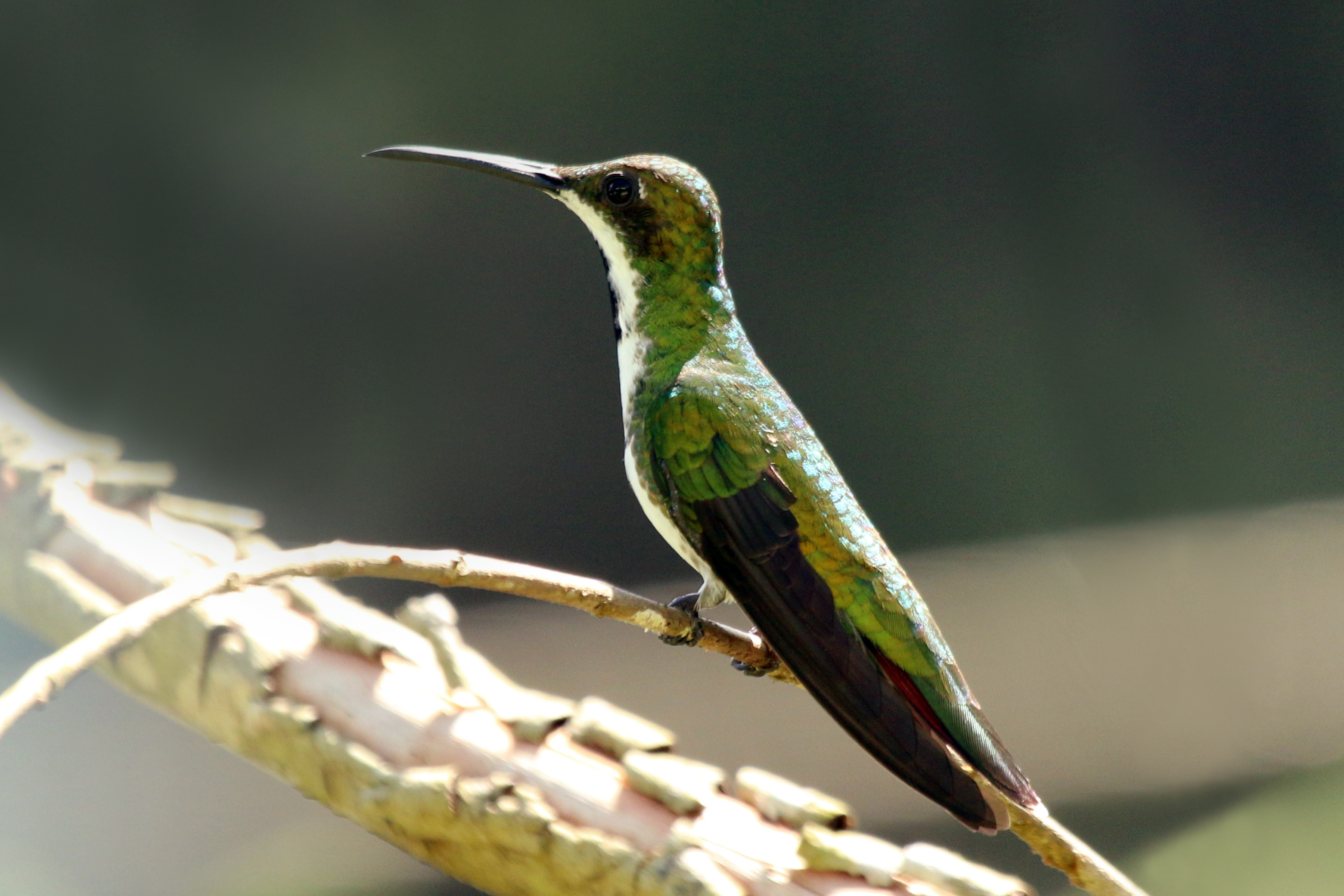 Black-throated mango (Anthracothorax nigricollis) female, Tobago